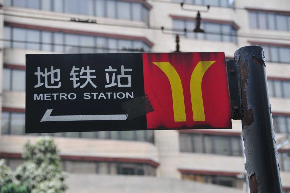 Not easy to spot....but there are metro signs to help you find your way to the nearest station.